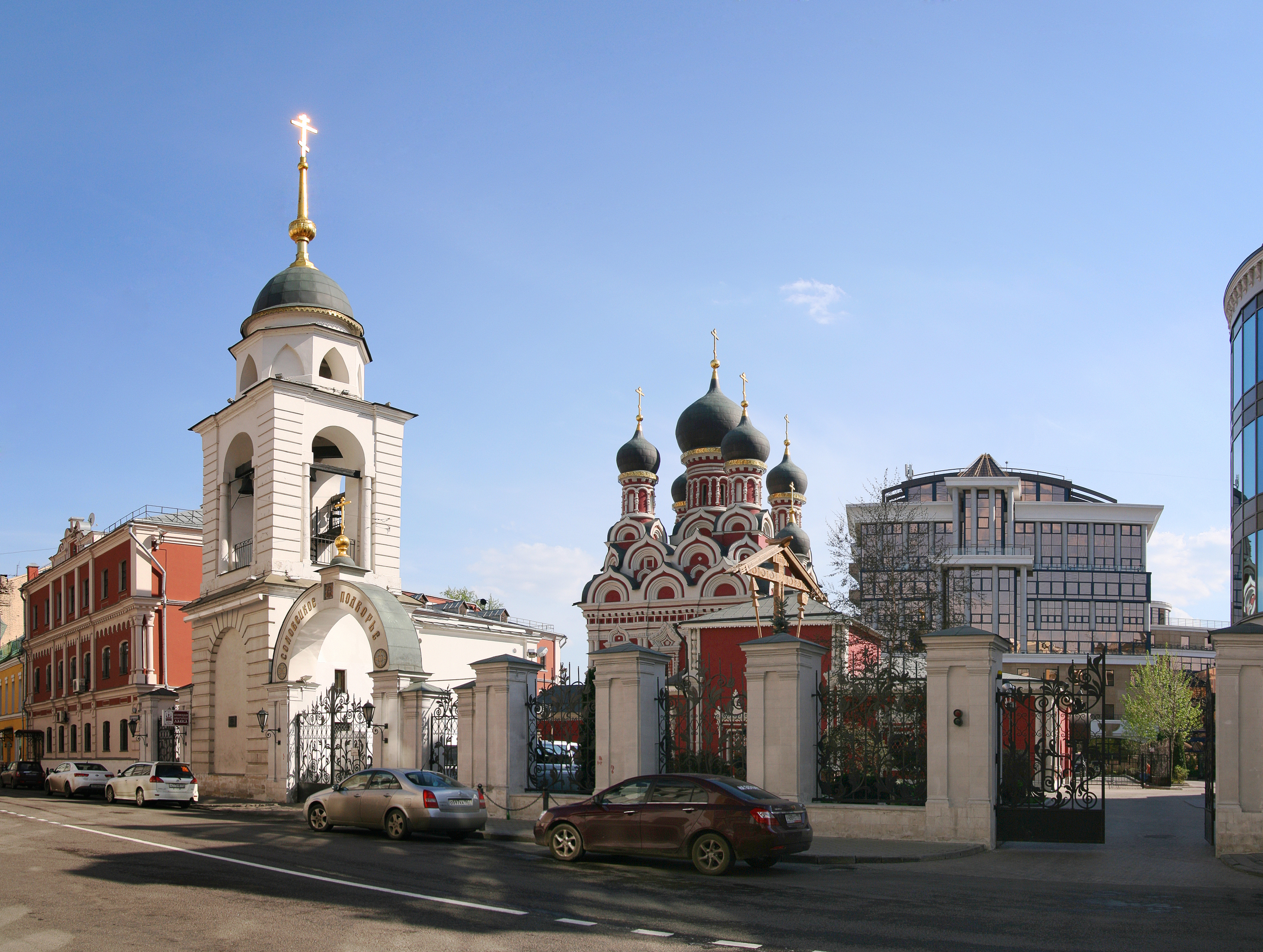 Church of Saint George in Endove, Moscow